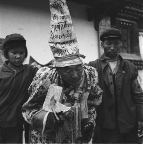 Kashopa during Cultural Revolution